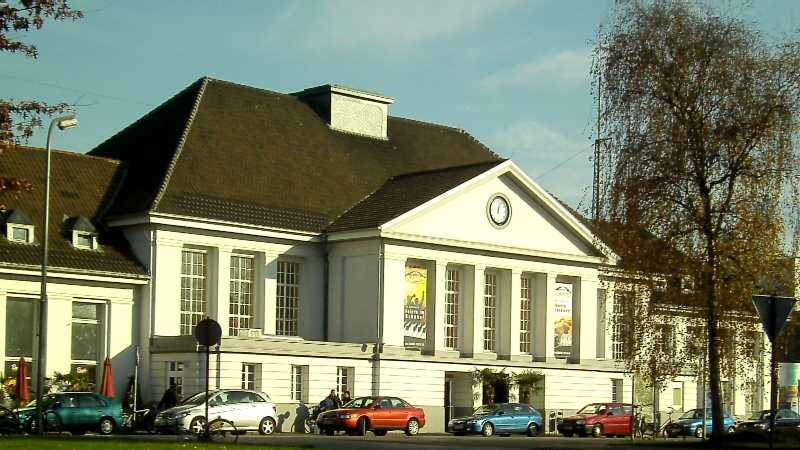 Railway station of Viersen, Germany.